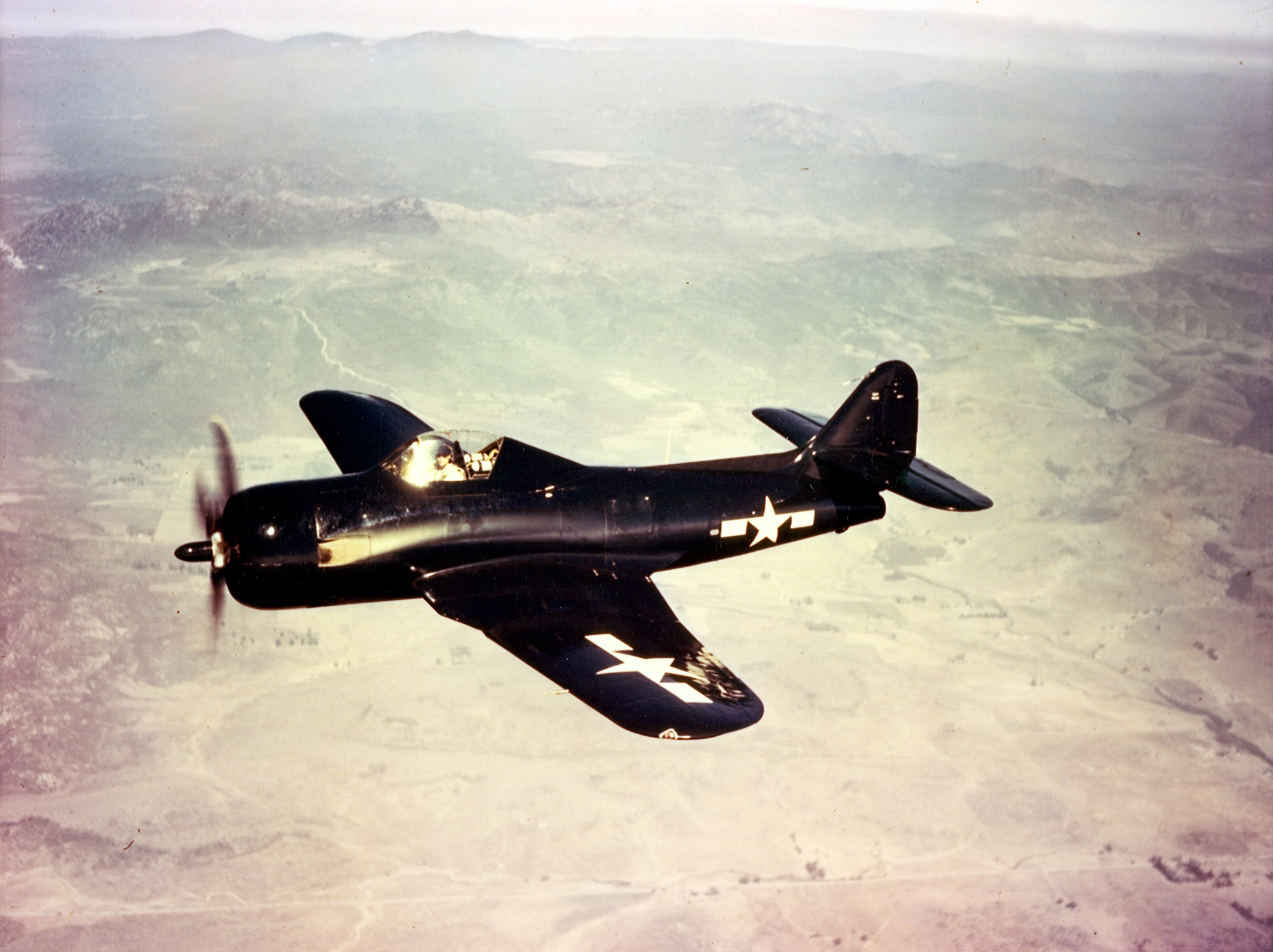 A U.S. Navy Ryan FR-1 Fireball of Fighter Squadron 41 (VF-41) "Fire Birds" in flight.